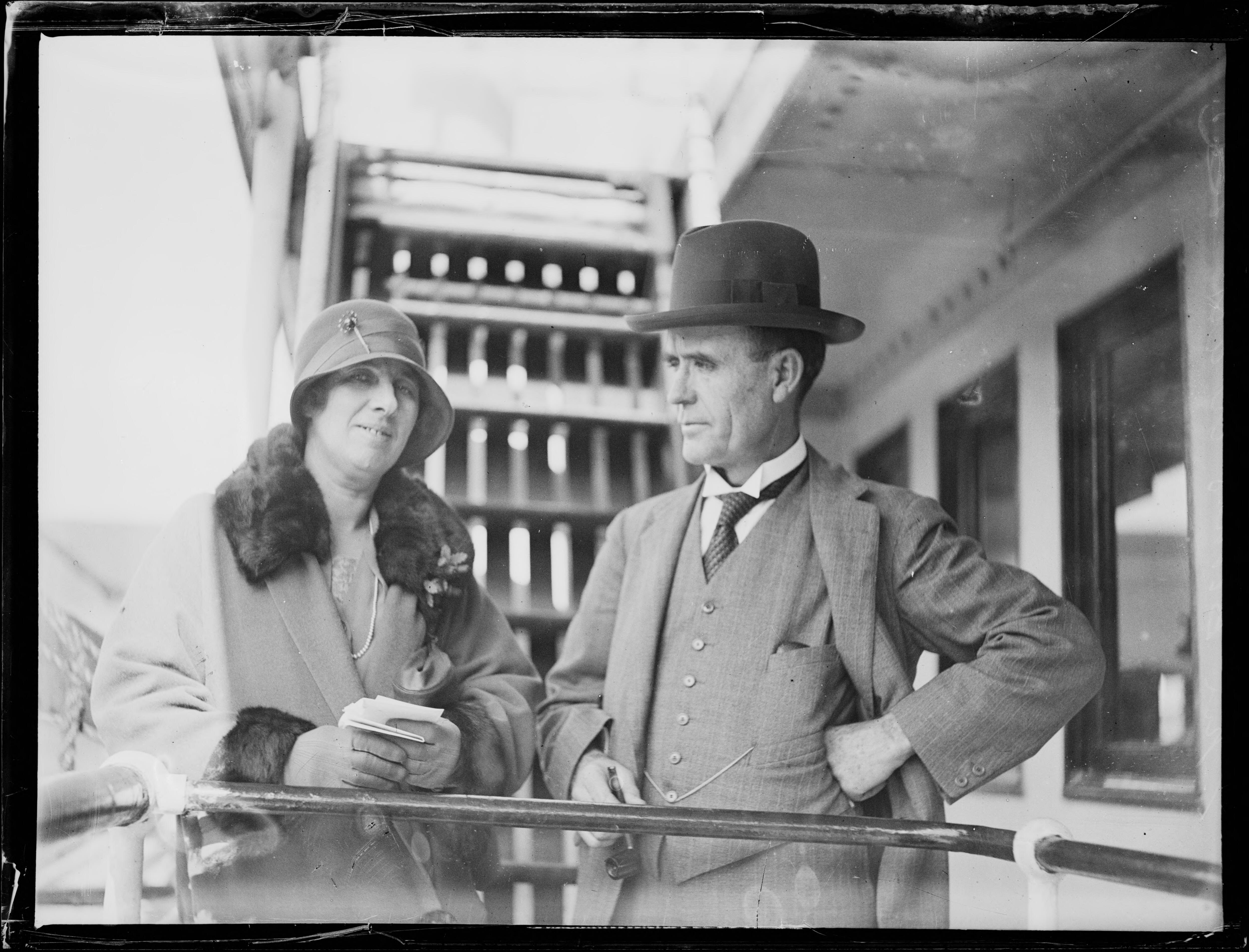 William Watt, Australian politician, with his wife Emily